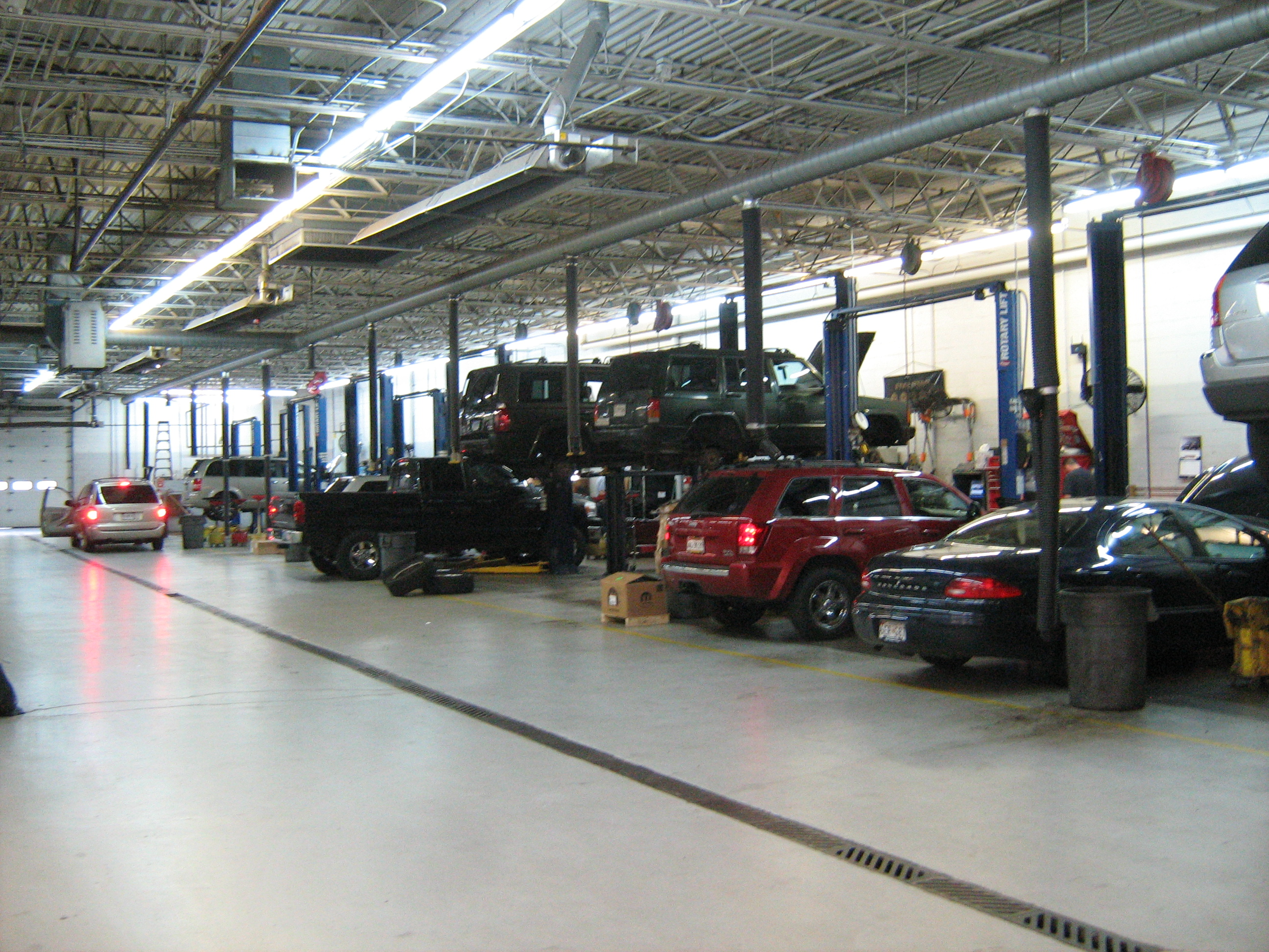 Automobile dealership - service and repair area. This facility is located at: 755 Rockville Pike. Rockville, MD 20852.